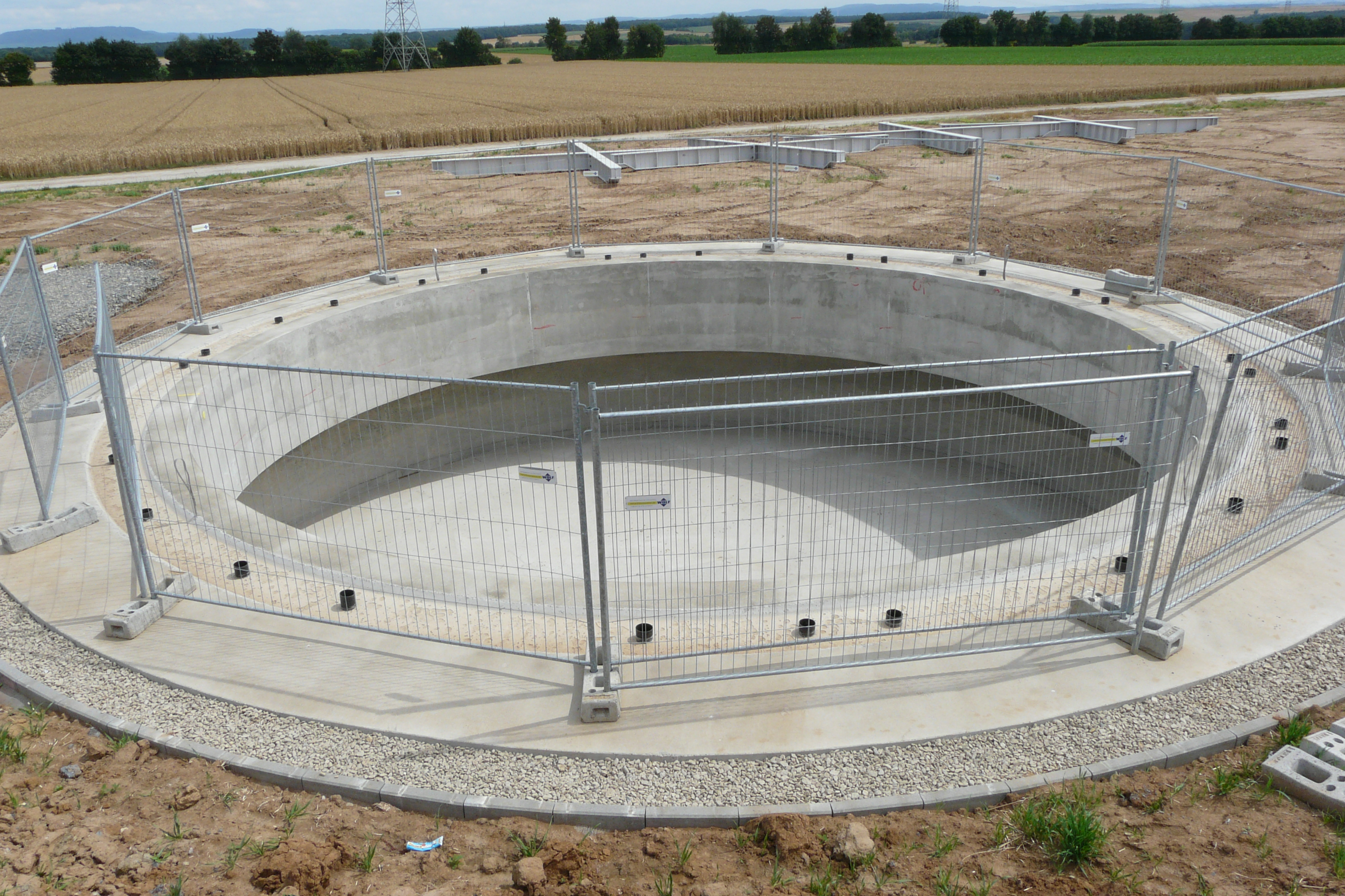 Concrete foundation for the construction of a wind turbine.